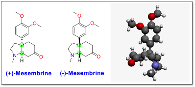 Structure of Mesembrine